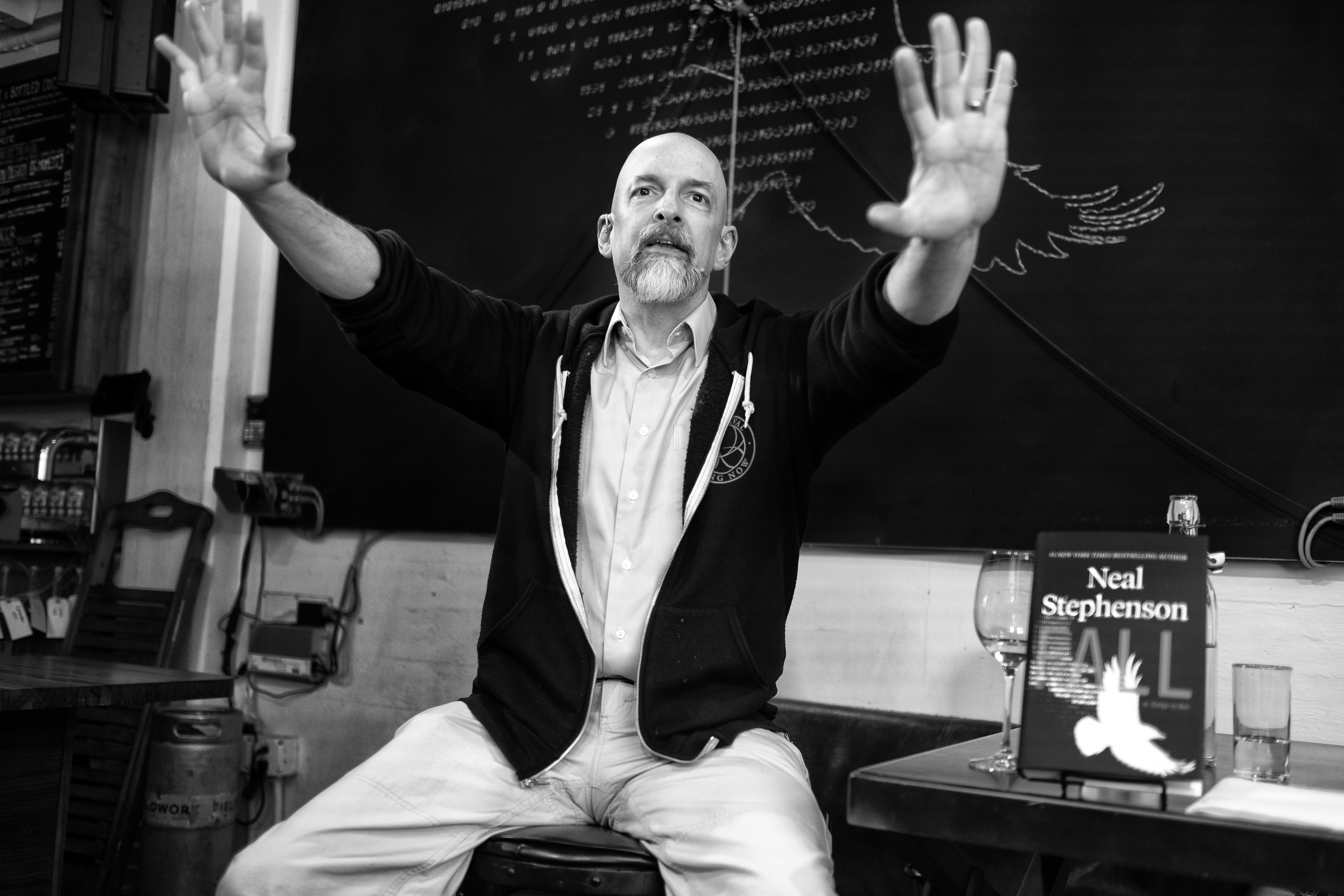 Neal Stephenson in 2019 speaking at the Interval of the Long Now Foundation by Christopher Michel